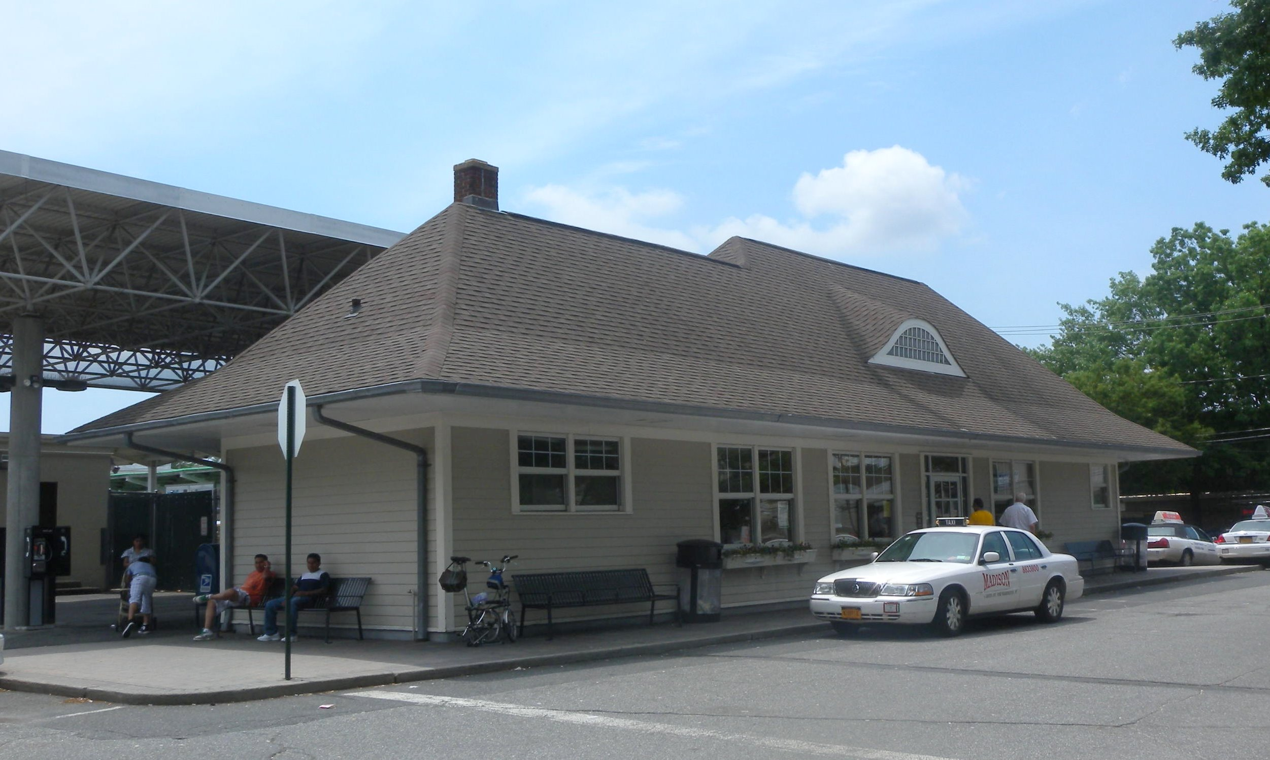 Looking southwest at station house on a mostly sunny midday.